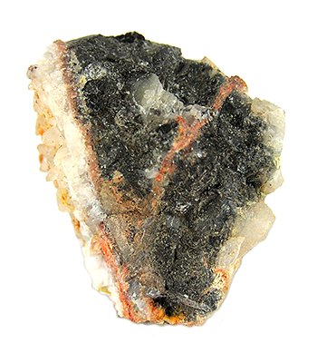 Montroydite Locality: Mariposa Mine (California Mountain Mine), Terlingua District, Brewster County, Texas, USA (Locality at ) Size: thumbnail, 2.7 x 2.2 x 1.5 cm Montroydite A VERY RICH and unusually large specimen of montroydite, a rare Terlingua mercury mineral! The piece has a thick vein running through it, and is rich with microcrystals on attractive contrasting calcite. The dark red is the montroydite and the orange mineral is kleinite. Edgar Bailey was a noted mineralogist and field collector of Terlingua minerals, and the species Edgarbaileyite is named after him in honor. This is from his collection and was self-collected by him, part of a suite of such pieces (not from Feinglos coll.)